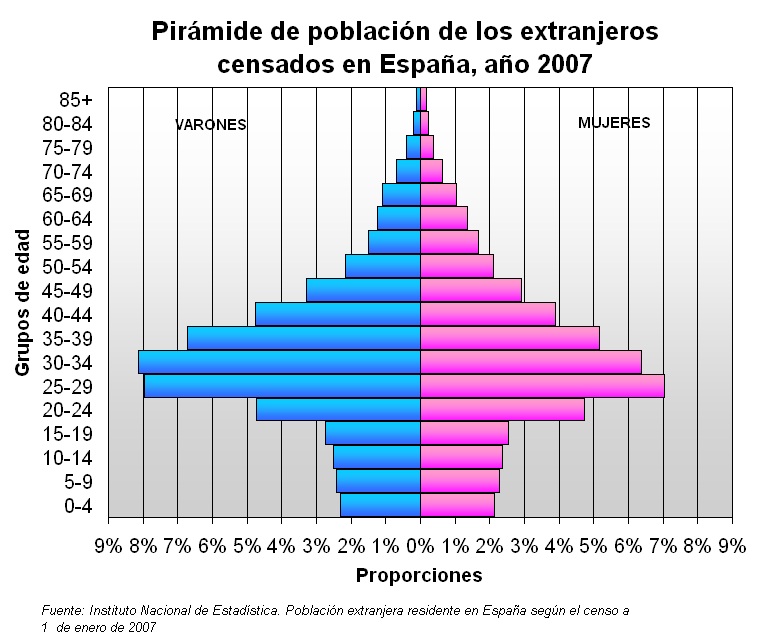 Population pyramid of the foreign population of Spain in 2007